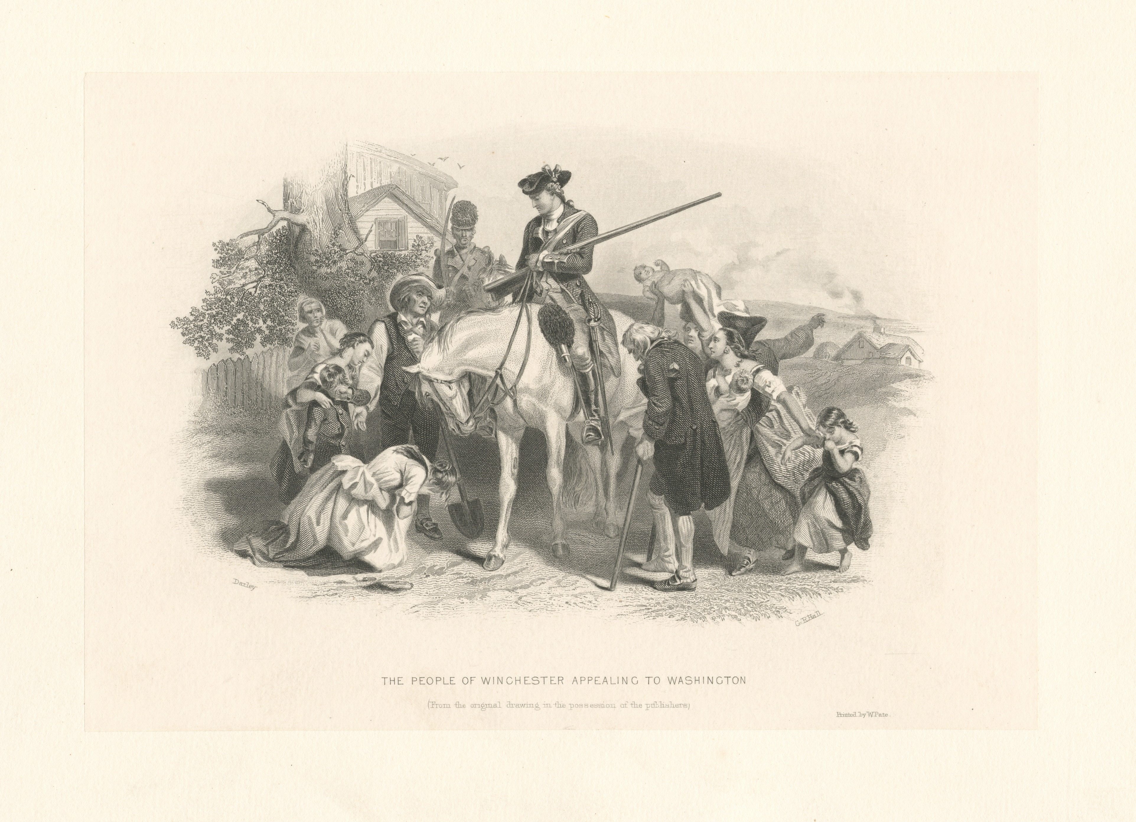 EM3776